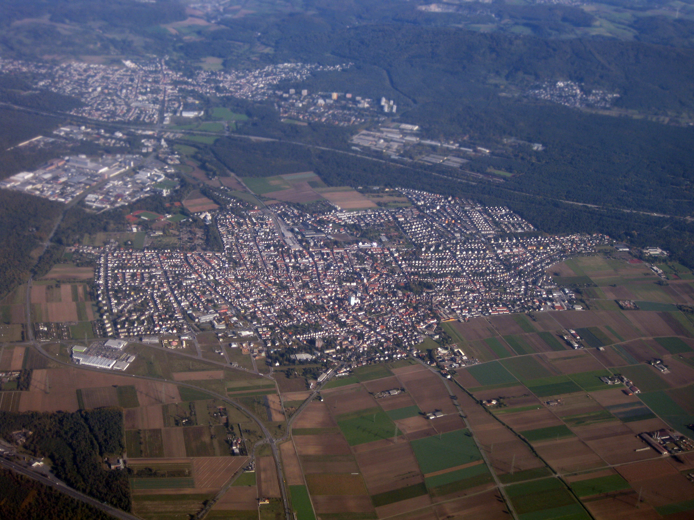 Aerial photo of Pfungstadt, from West to East